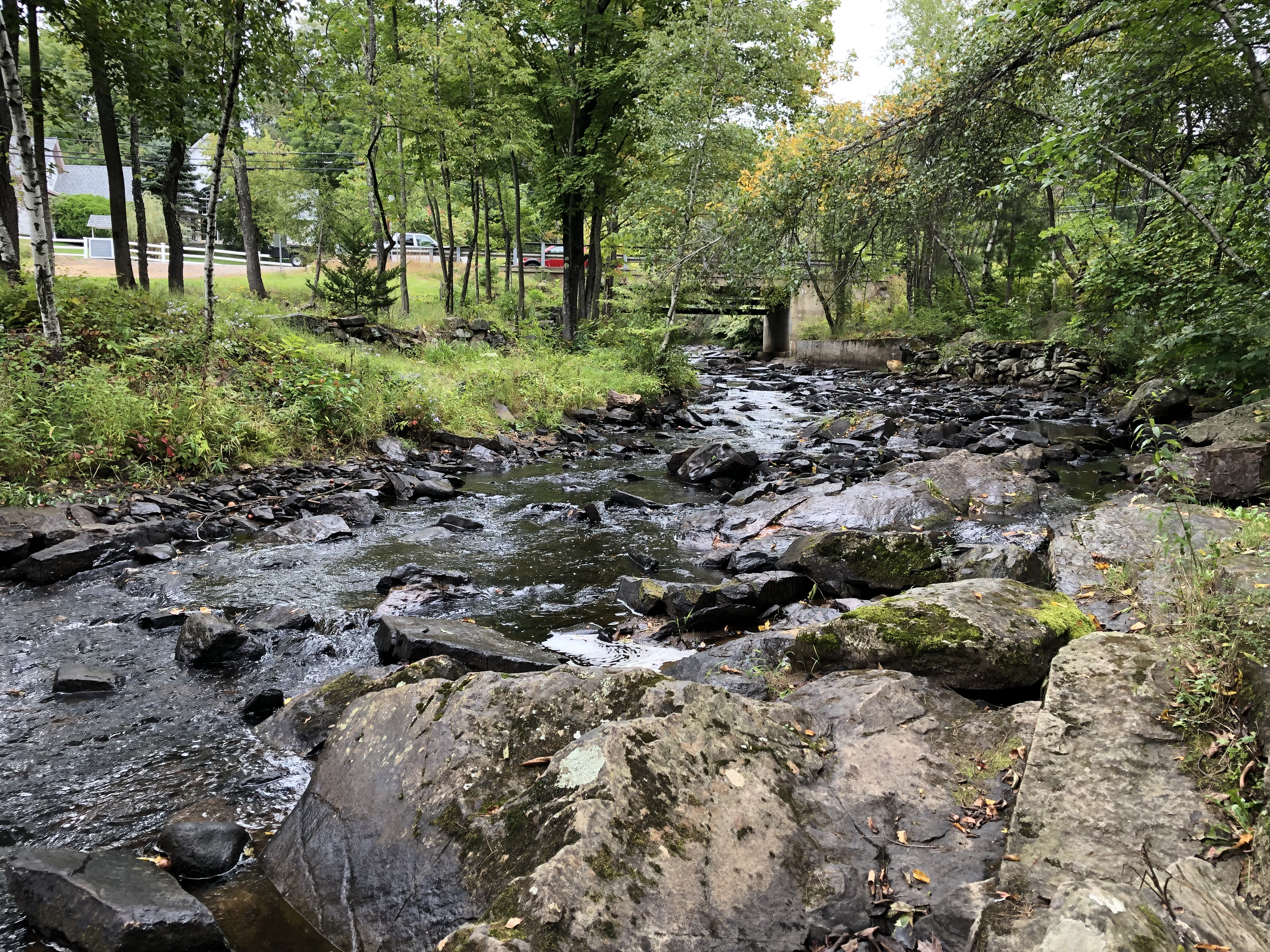 Depicted place: Tioga River